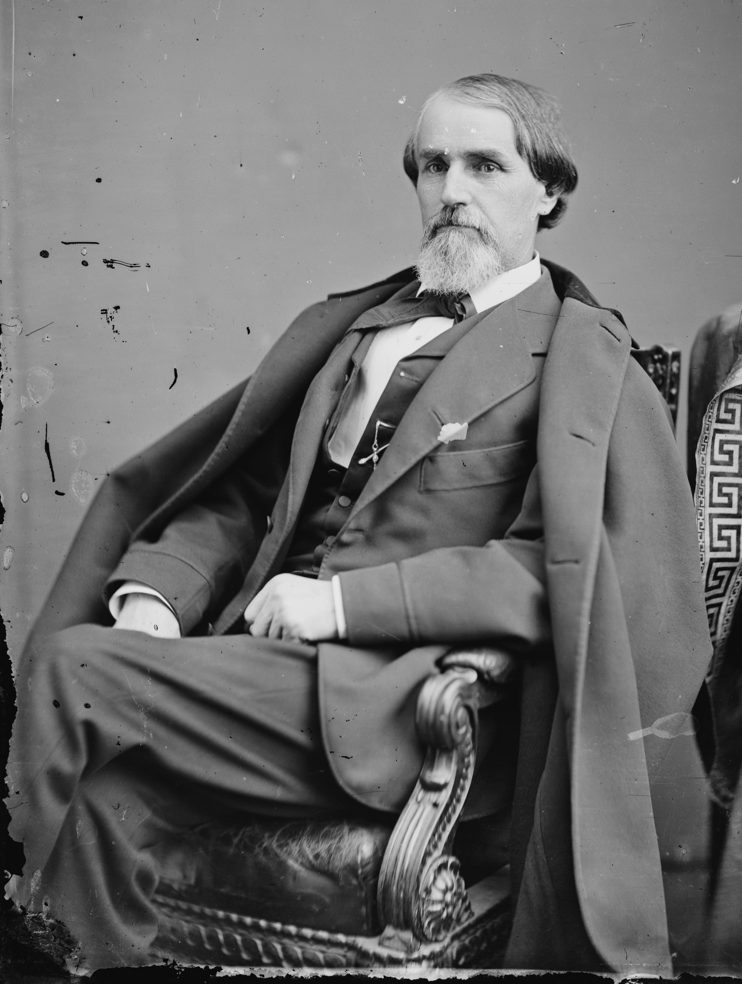 Elliott Muse Braxton. Library of Congress description: "Hon. E. M. Braxton of Va."